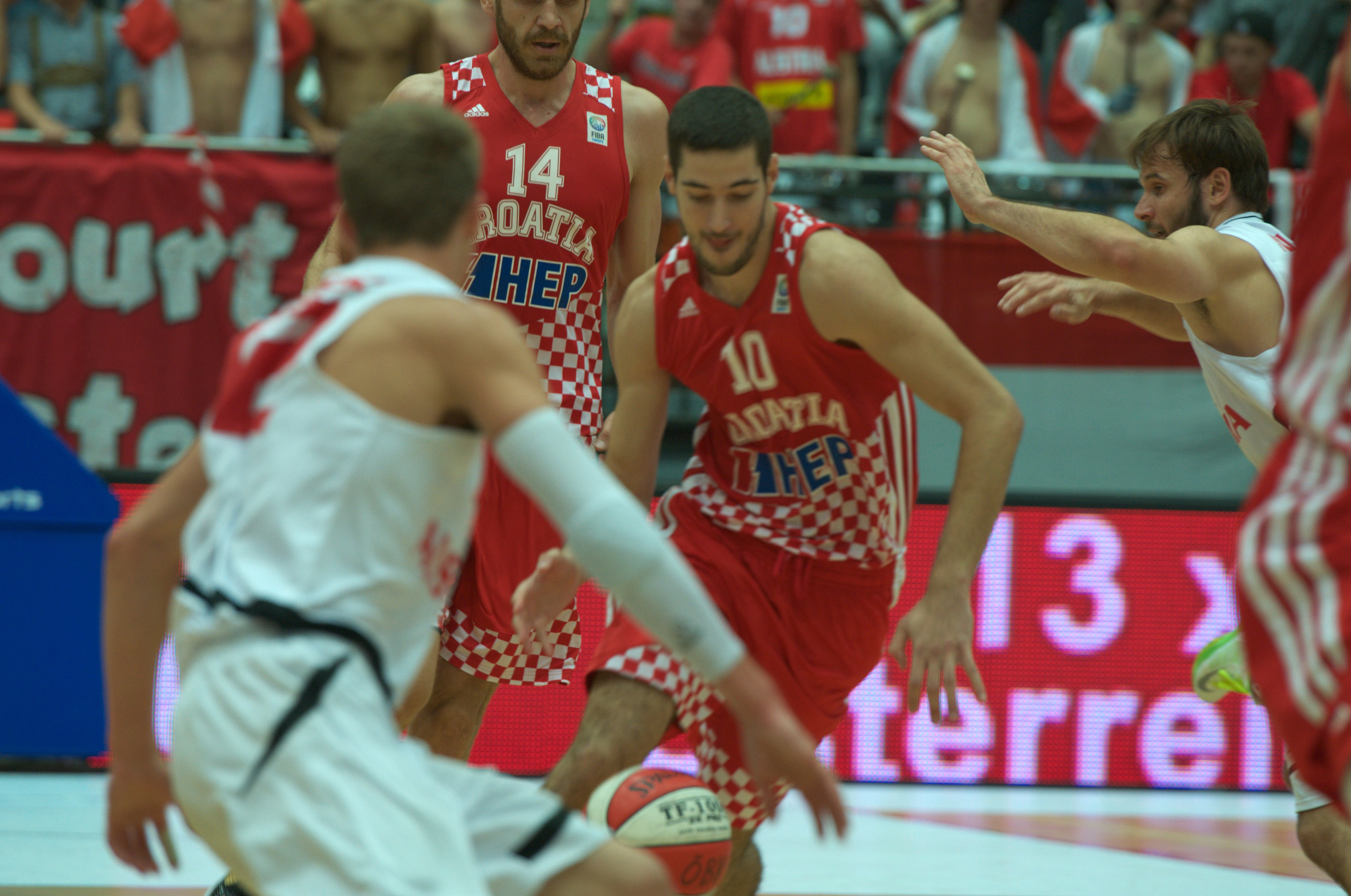 EuroBasket Qualifier Austria vs Croatia, 27 August 2012, Luka Babić (10)